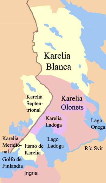 Traditional map of the many Karelias (in Spanish)